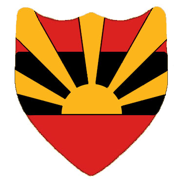 The shield(emblem) of the Eastern Command of the Indian Army